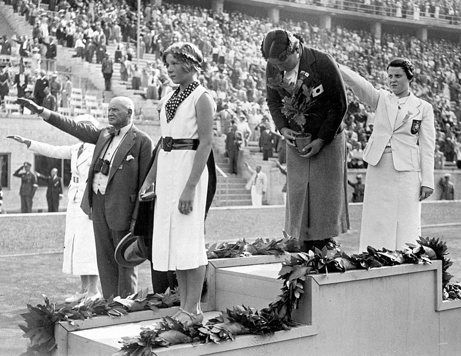 Bronze medalist Inge Sorensen of Denmark, gold medalist Hideko Maehata of Japan and Martha Genehger of Germany pose on the podium during the medal ceremony for the Swimming Women's 200m Breaststroke during the Berlin Olympic at Swimming Stadium on August 11, 1936 in Berlin, Germany.